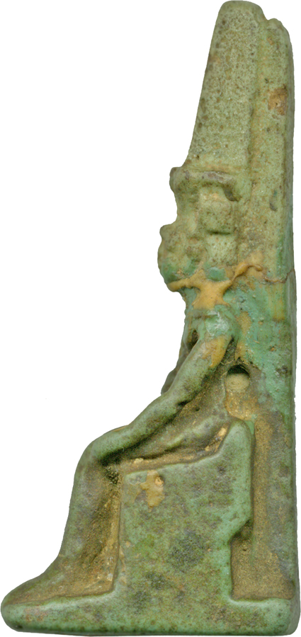 The seated figure represents a nude child god. The crown on his head depicts a lotus bud. The opened lotus flower is an attribute of the god Nefertem, the son of the creator god Ptah and the lioness goddess Sakhmet. This variation of Nefertem with a lotus bud is a rare example.